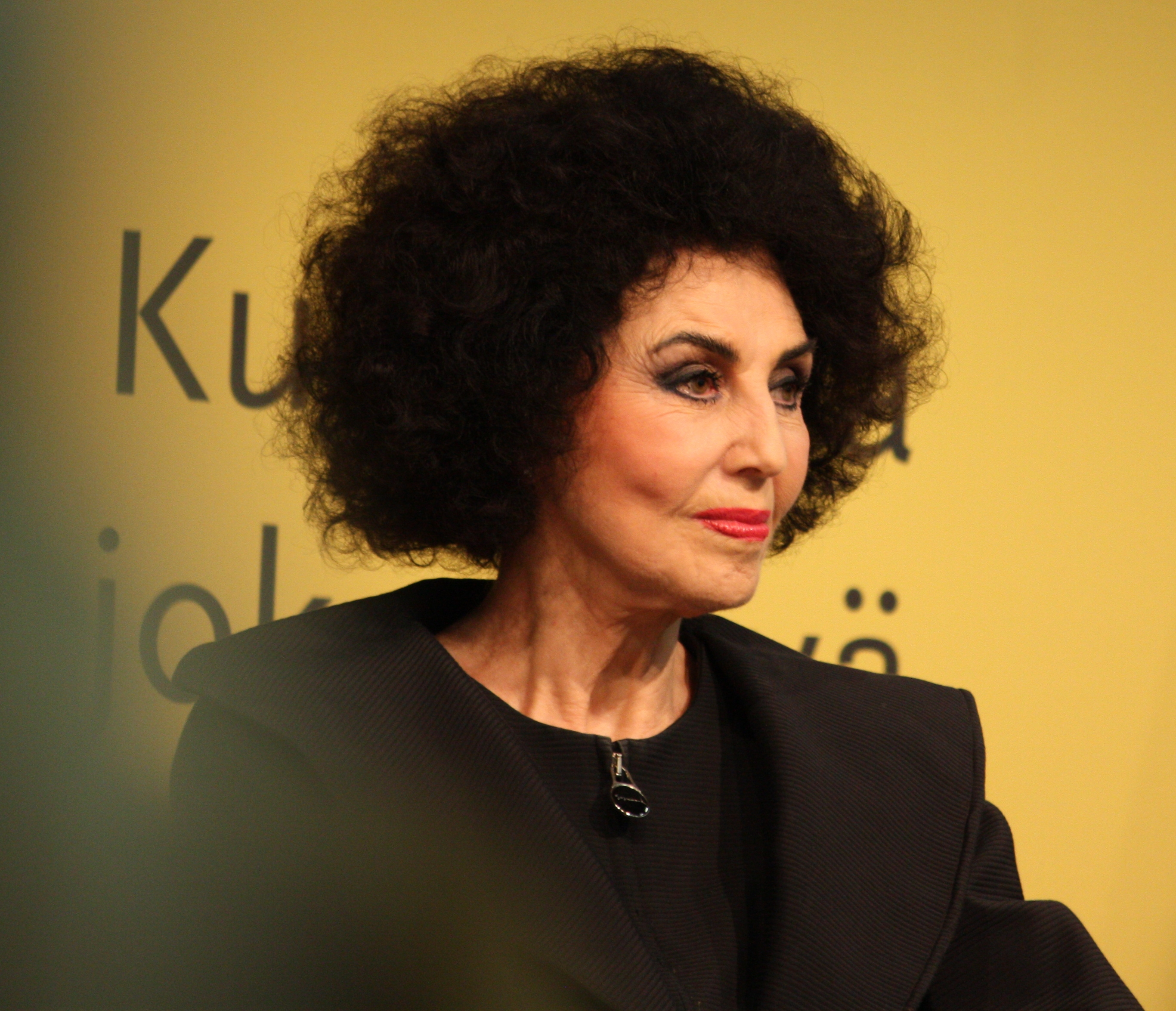 Finnish entrepreneur and writer Lenita Airisto at the Helsinki Book Fair 2010.